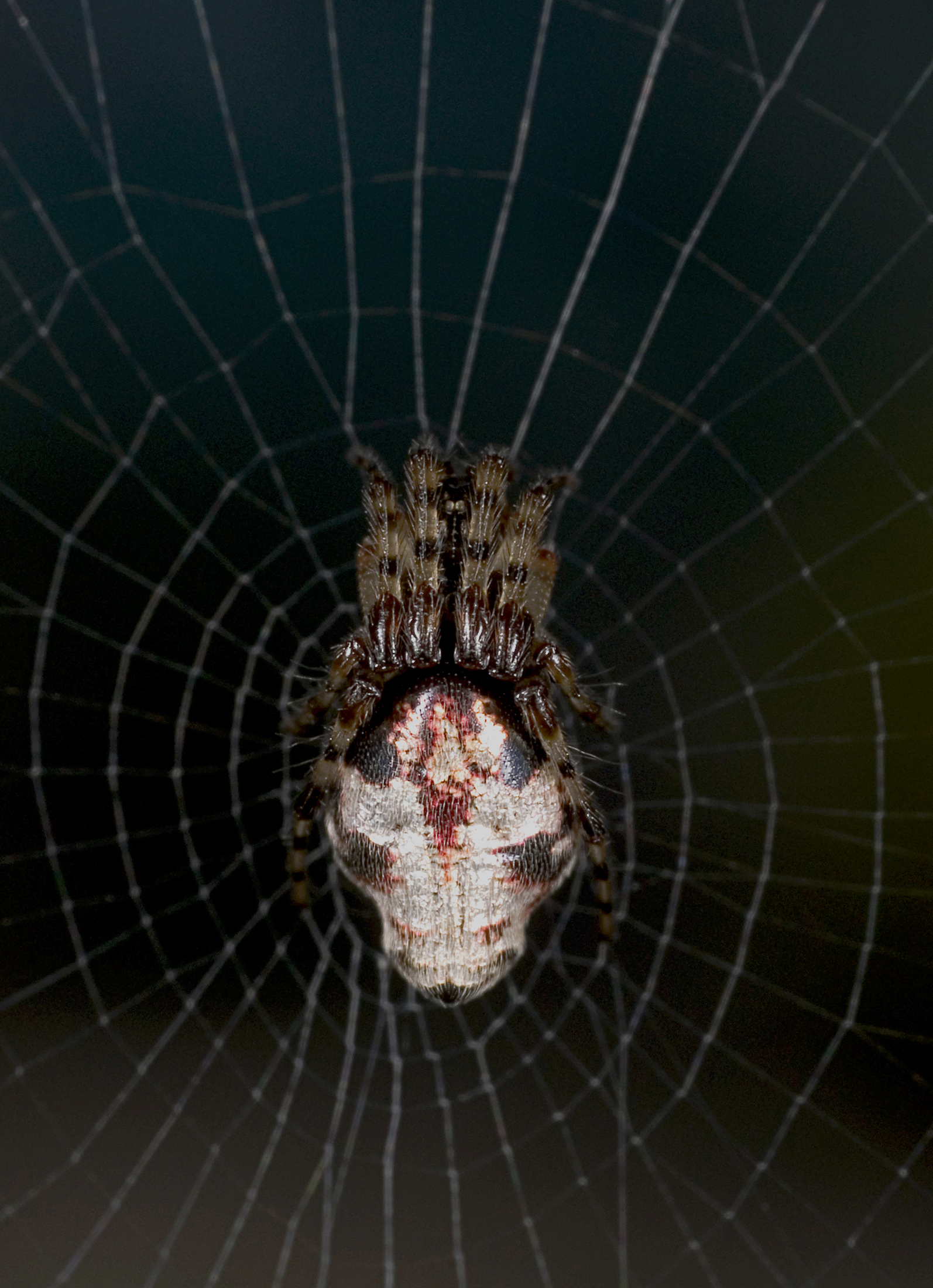 Ginmekki Gomigumo